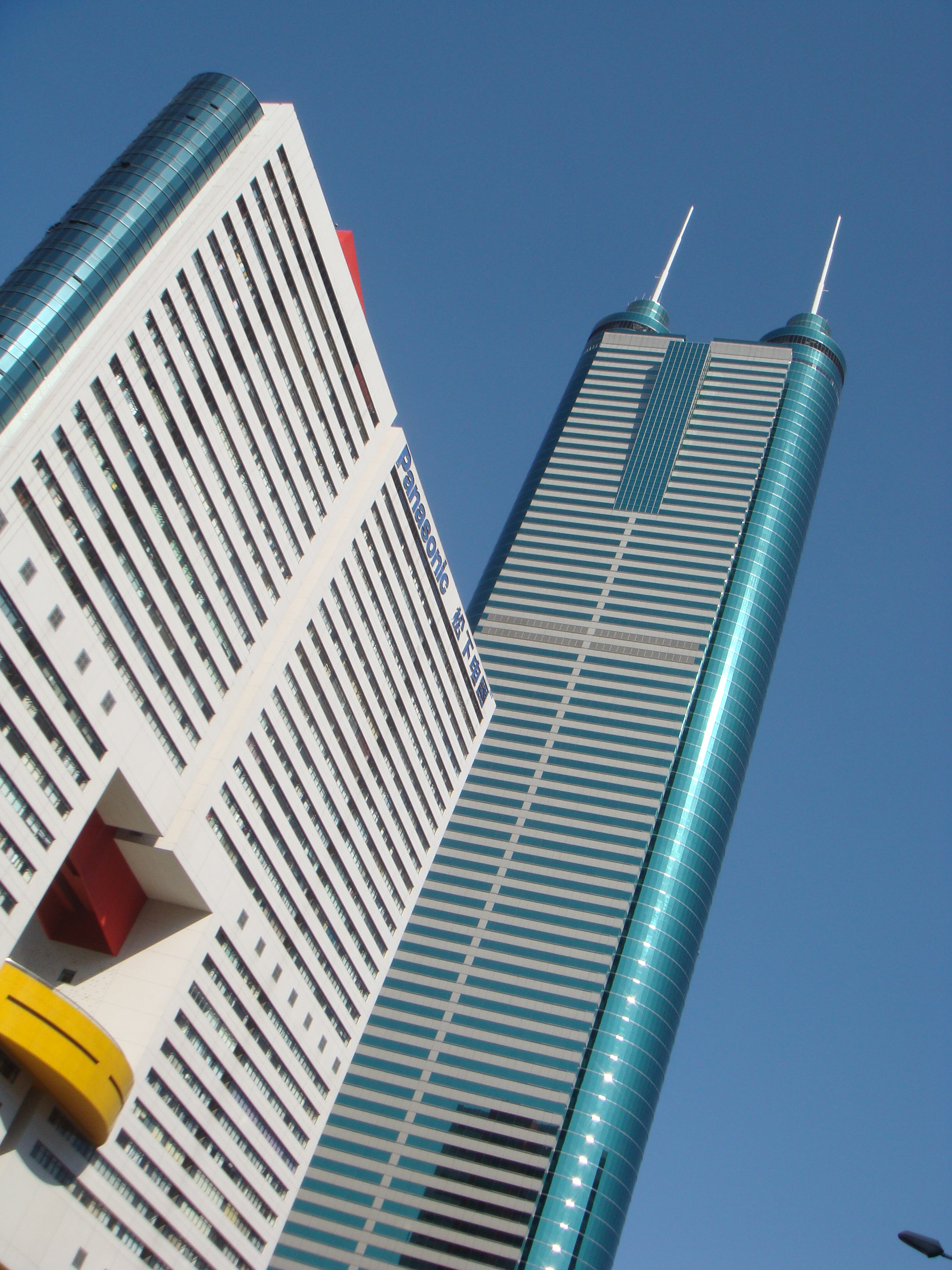 Shun Hing Square